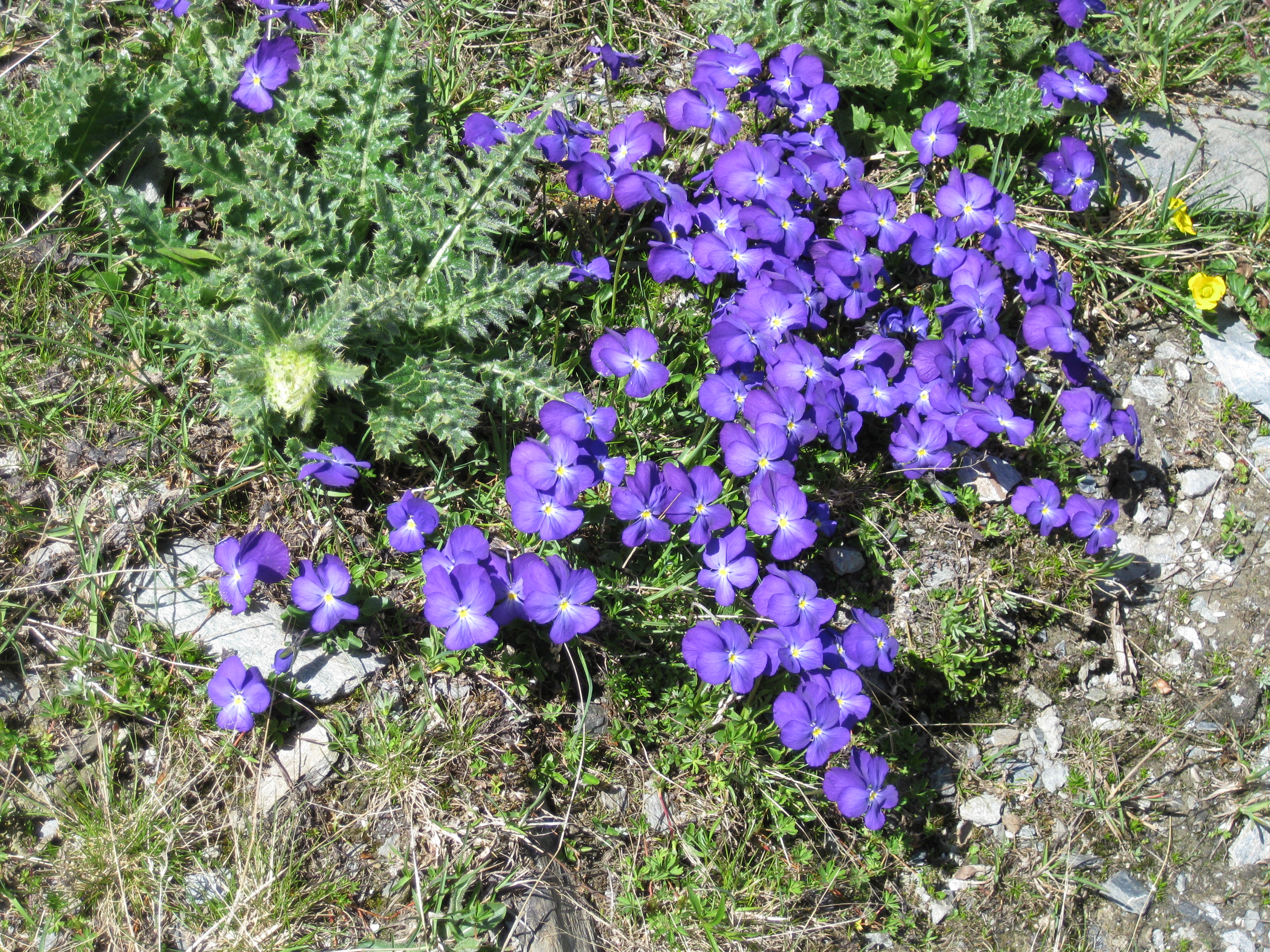 Viola calcarata clump